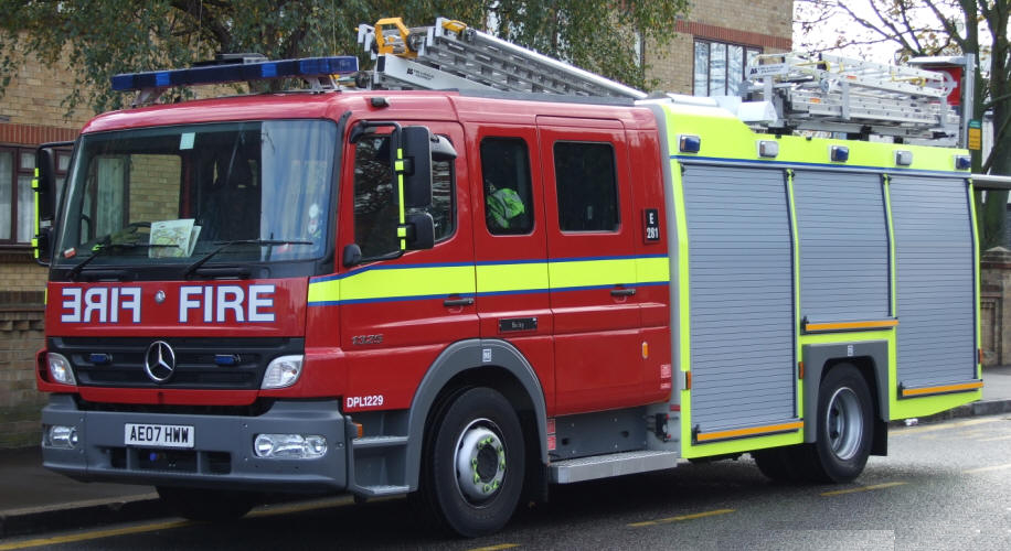 A typical "new-look" London fire engine. The new type of fire appliance used by London Fire Brigade is smaller than its predecessors to enable it to negotiate heavy London traffic more easily. With "FIRE" in mirror writing ("ERIF").